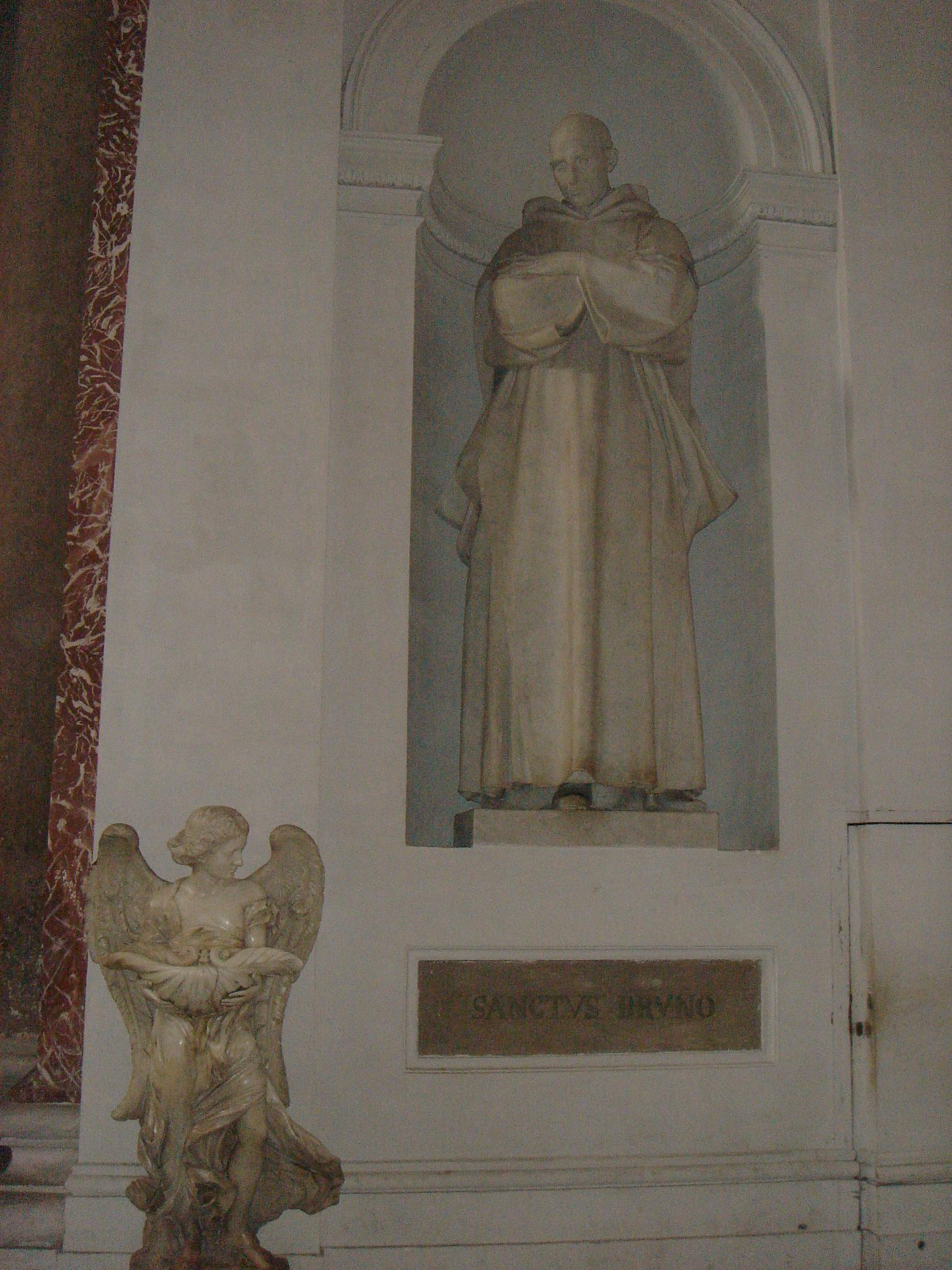 Santa Maria degli Angeli in Rome, Italy: the statue of Saint Brunus above an angel bearing a stoup, at the entrance vestibulum.